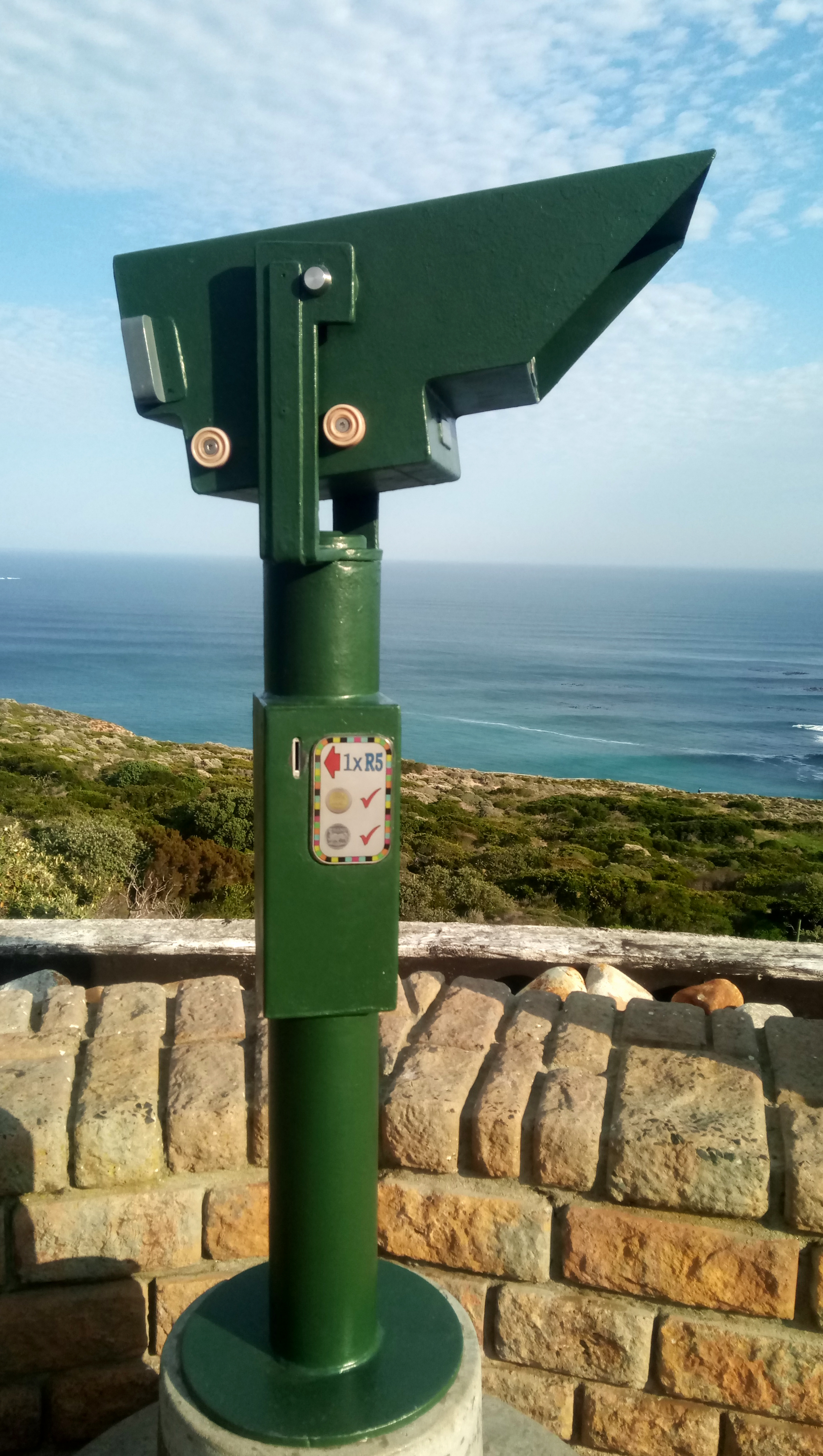 Coin-operated binocular at Cape of Good Hope. The device magnifies objects seen through its lenses, allowing users to see farther and more clearly than they could with the naked eye or with less powerful viewing devices. Typically metallic and most swivel horizontally and vertically (within given axes of rotation) to permit a range of view.